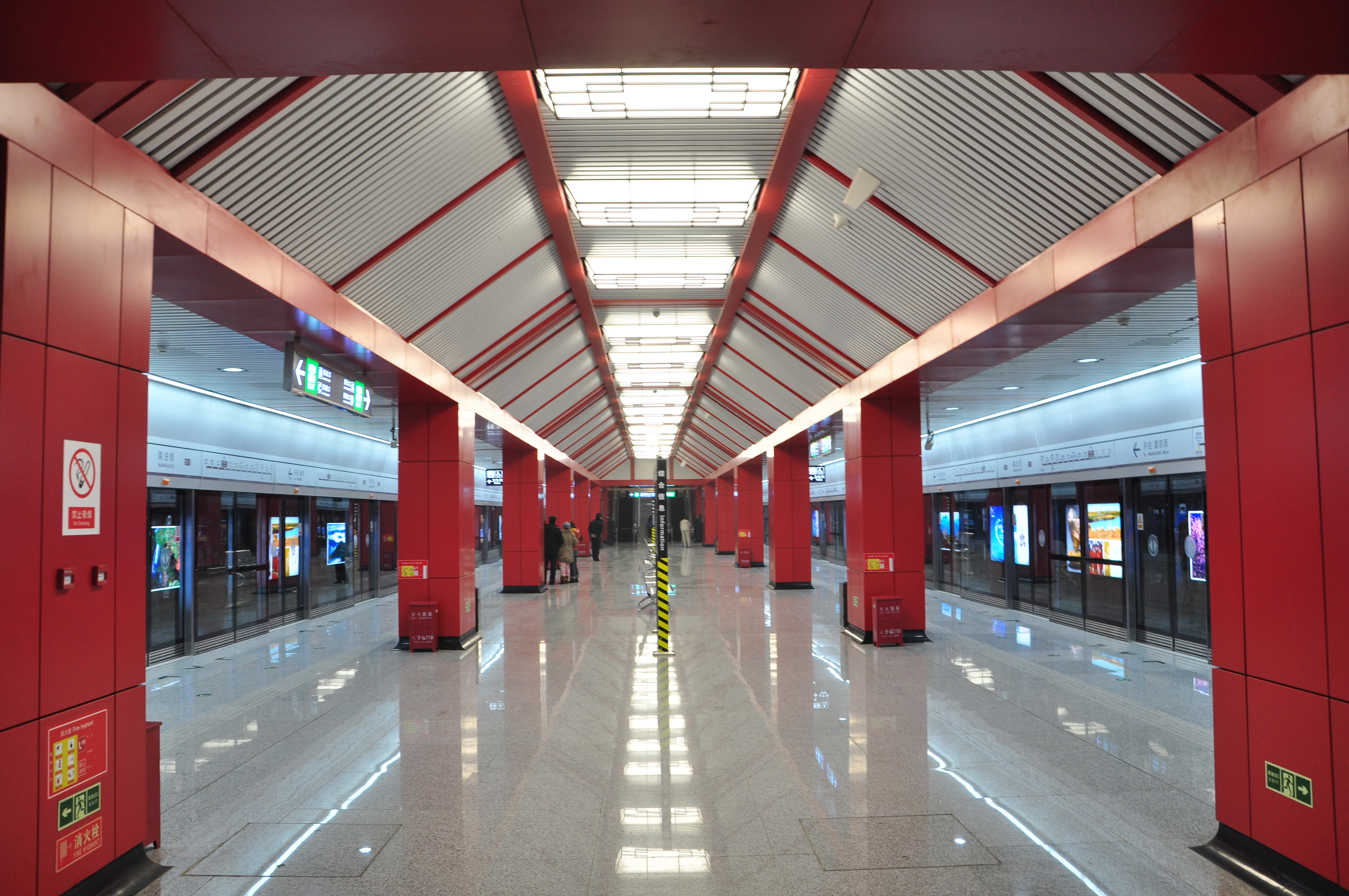 The platform of Nanfaxin station, Line 15, Beijing Subway.